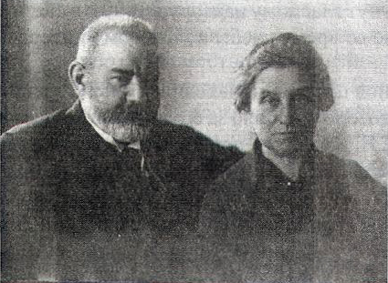 Nikolai Bogdanov, a member of the second Russian State Duma, with his wife Sophia Pavlovna nee Korob'ina